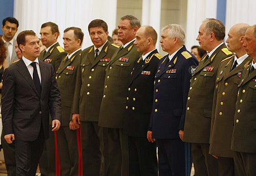 THE KREMLIN, MOSCOW. Meeting with servicemen from the Russian Armed Forces.